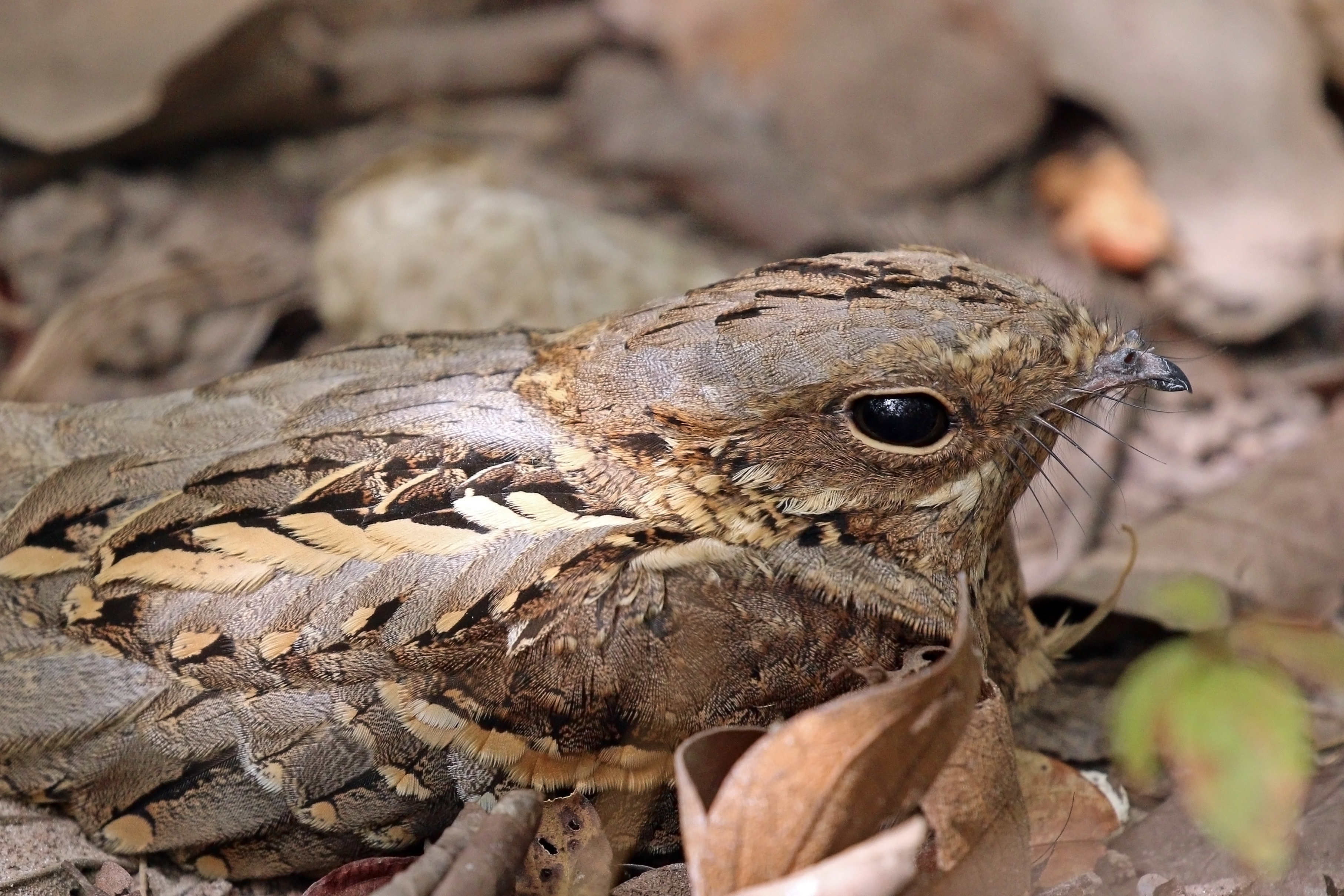 Long-tailed nightjar (Caprimulgus climacurus climacurus) male head, The Gambia